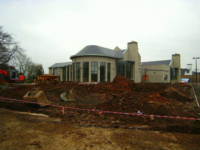 La Mon Hotel and Country Club Hotel / Country Club at Gransha near Belfast. It is currently being extended - for info.